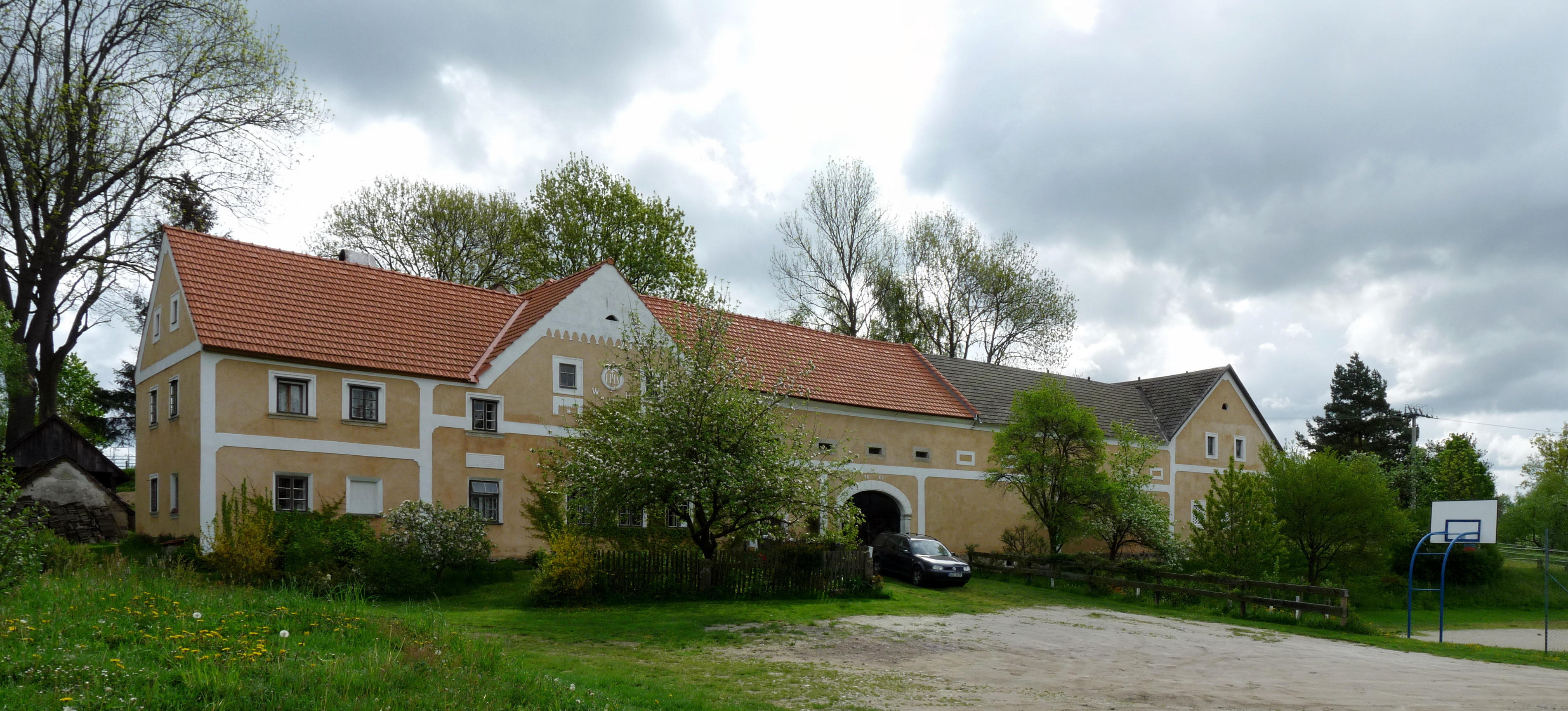 House No 28 in the village of Oldřiš, Jindřichův Hradec District, South Bohemia, Czech Republic, part of Blažejov.